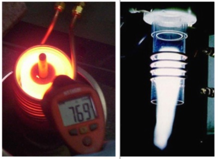 induction heating on solid and gas